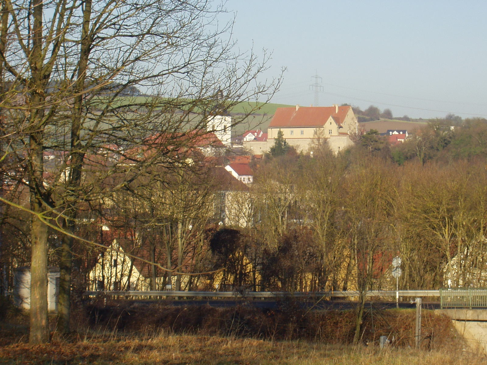 Burg Arnstein (Main-Spessart)